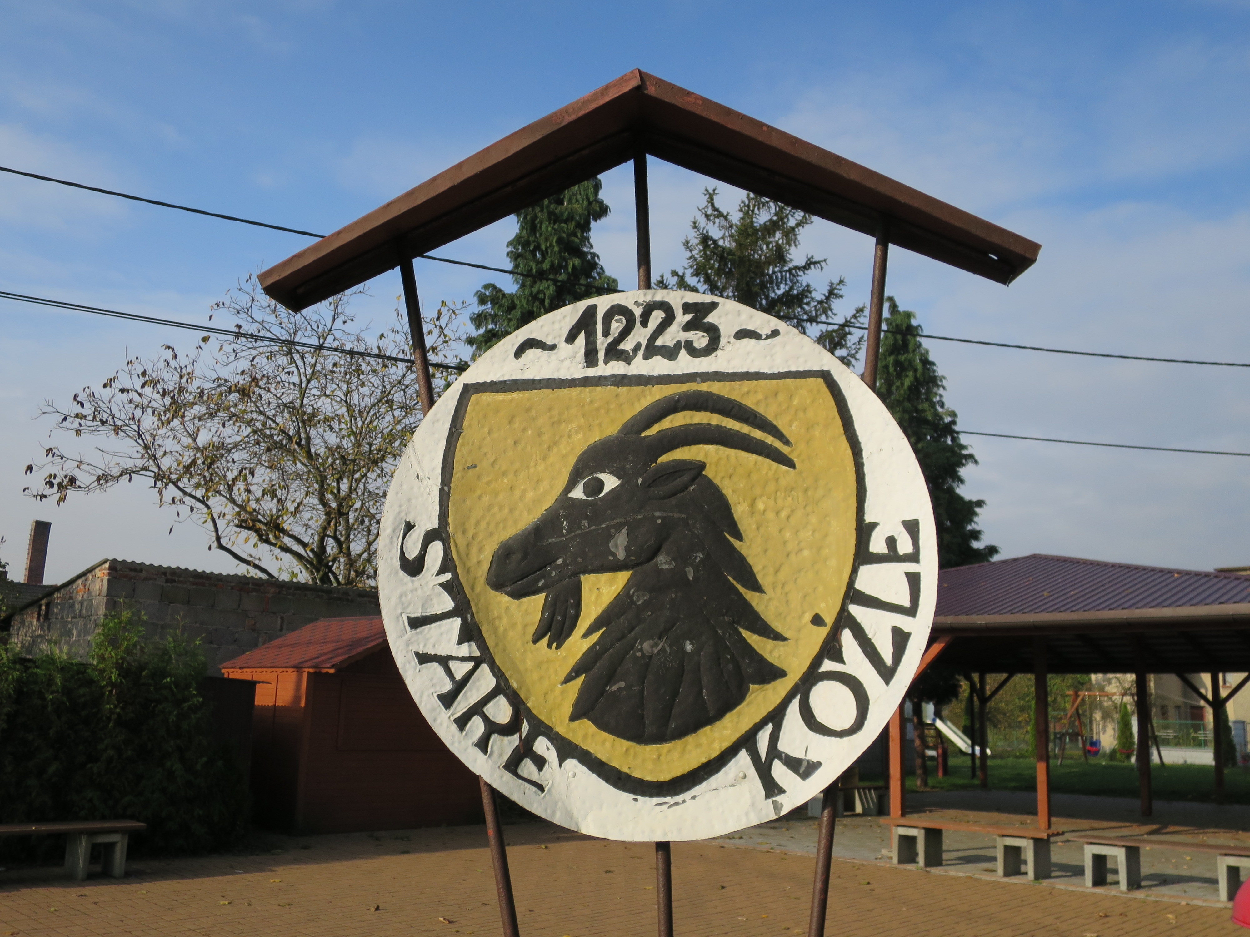 This photo was taken during Wikiexpedition 2016 set up by Wikimedia Polska Association. You can see all photographs in categories Wikiekspedycja Opolska 2016 (Polish part) and Mediagrant III:Wikiexpedice Slezsko (Czech part).